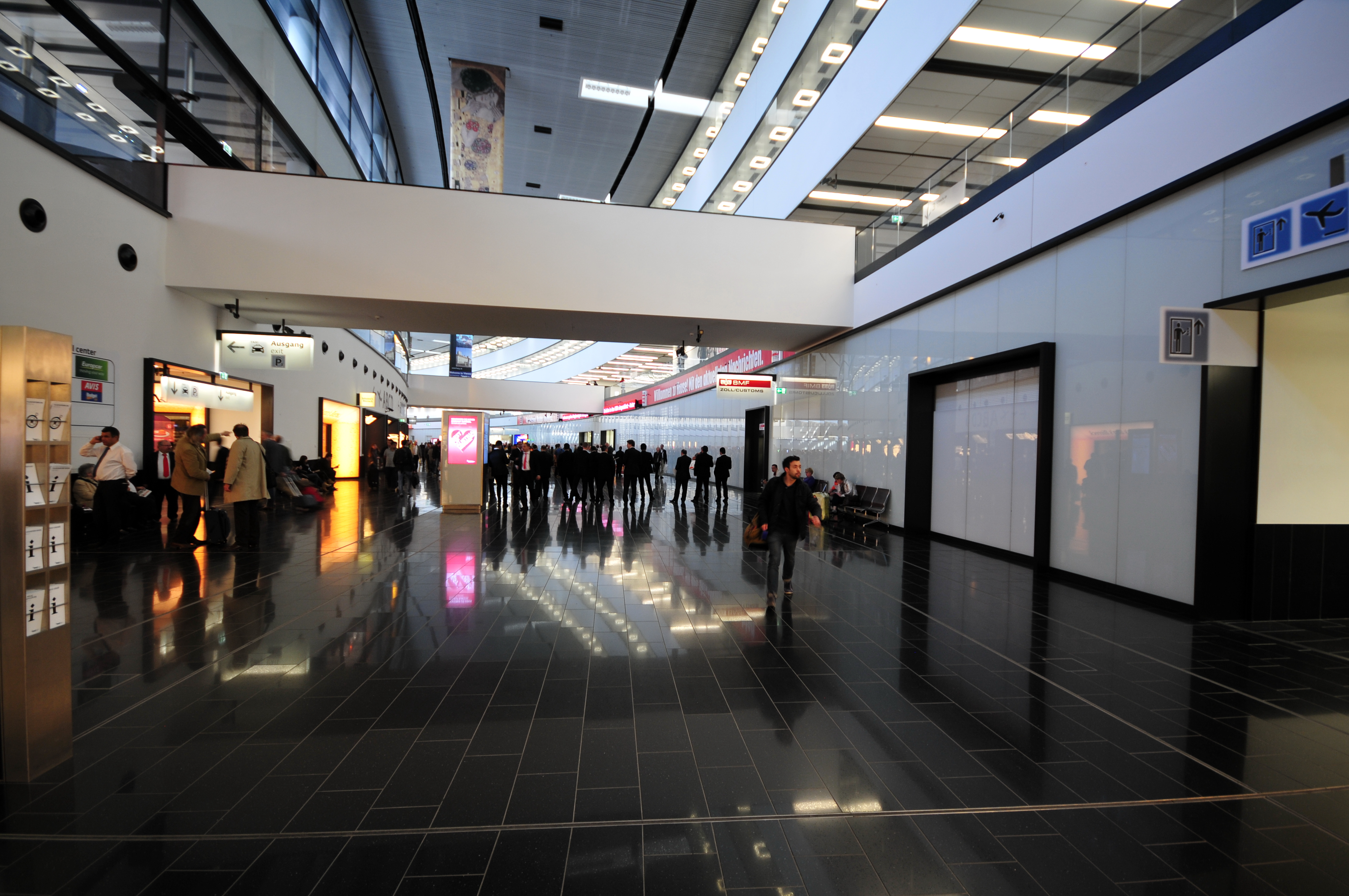 Arrivals floor in terminal 3 of Vienna International Airport